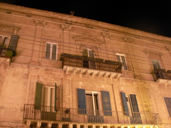 Palace Spaventa at night to Atessa